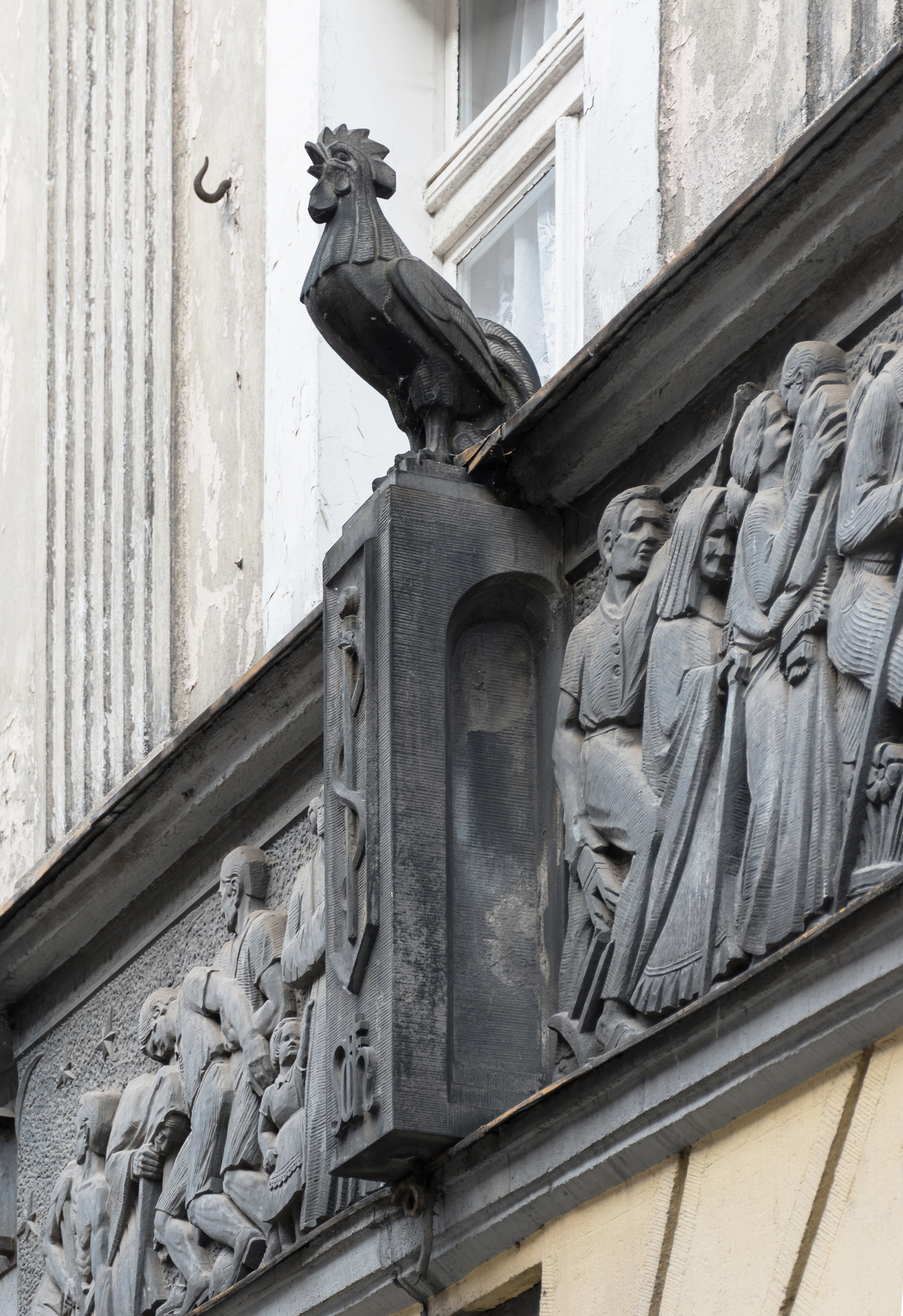 5 Piastów Street in Nowa Ruda